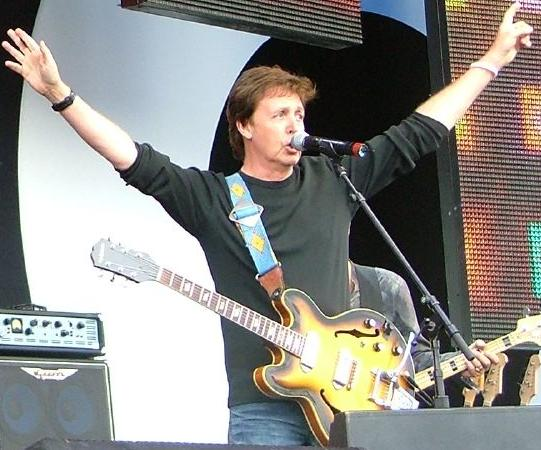 Paul McCartney with an Epiphone Casino at Live8. McCartney in Live 8.